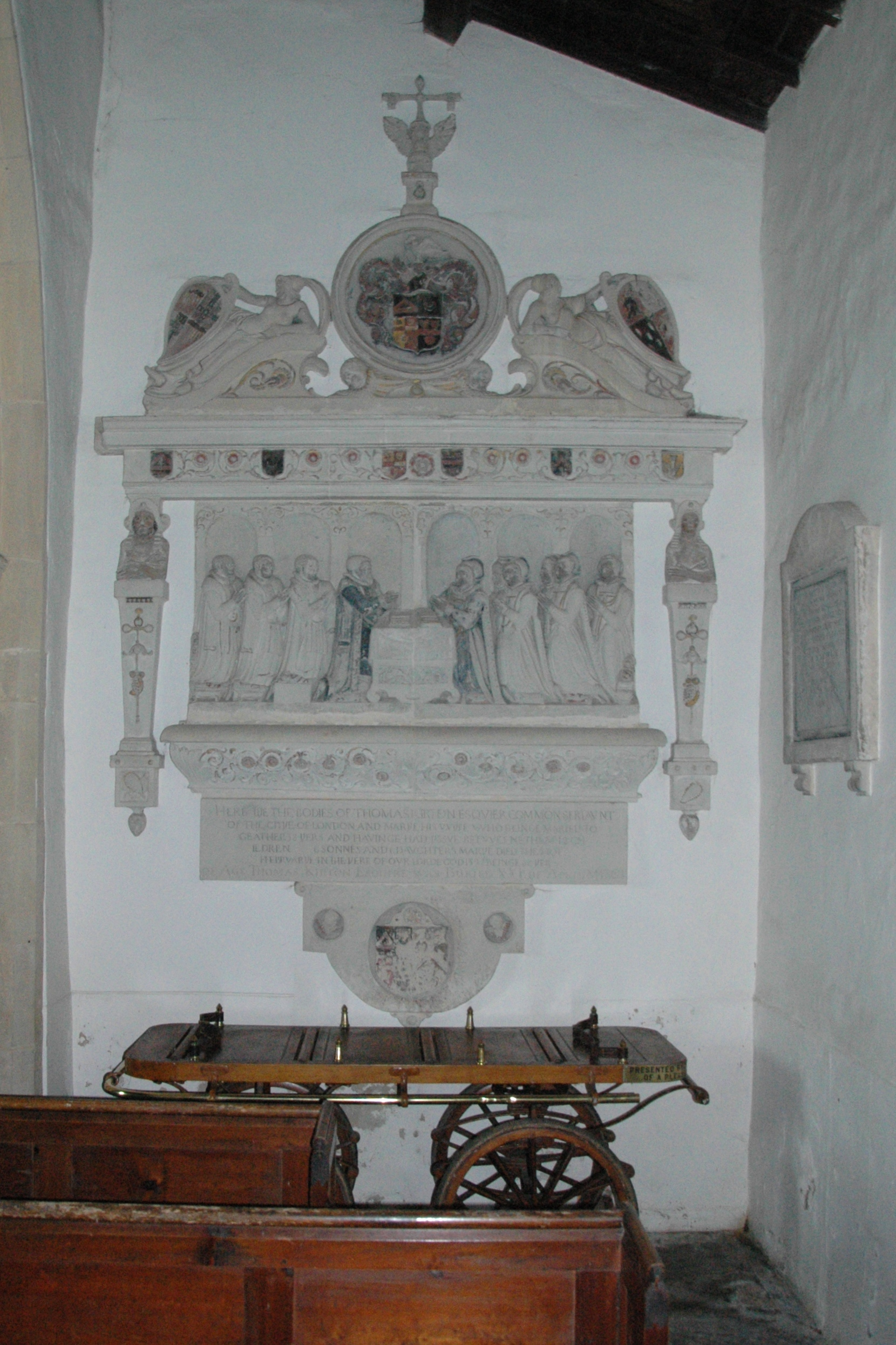 Church of England parish church of St John the Baptist, Thorpe Mandeville, Northamptonshire: monument at the west end of the north aisle to Sir Thomas Kirton (died 1601) and hos wife Margaret (died 1597)